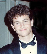 Photo taken at the 41st Emmy Awards 9/17/89